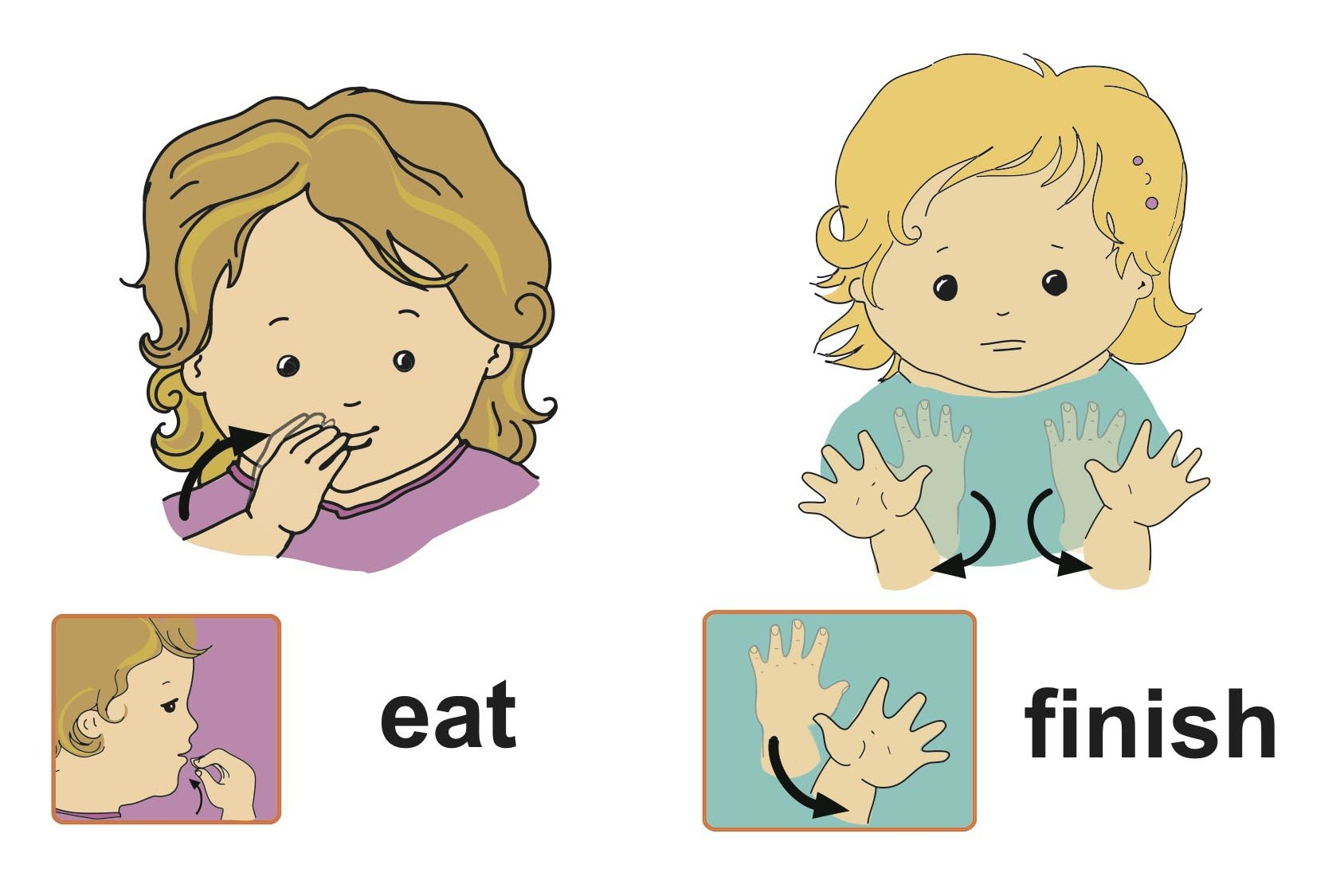 Eat finish en. Signing is a tool for babies to communicate with their caregivers before they can speak. Developmentally, babies can use their hands to communicate much earlier than they can make meaningful words.